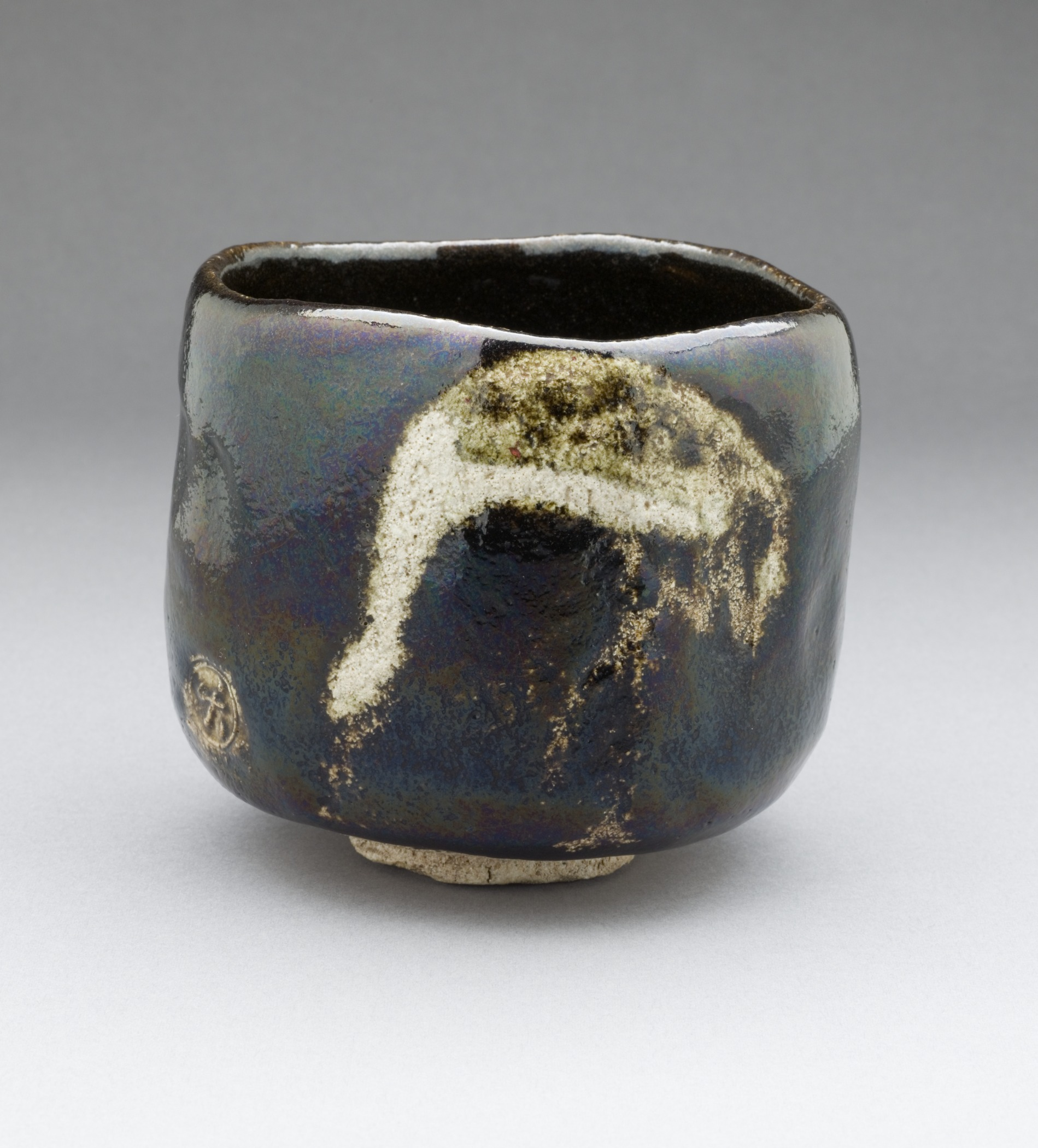 Japan, circa 1810-1838 Furnishings; Serviceware Raku ware; earthenware Height: 3 15/16 in. (10 cm); Diameter: 4 3/8 in. (11.11 cm) Gift of Leslie Prince Salzman (M.2007.7.2) Japanese Art Currently on public view: Pavilion for Japanese Art, floor 3